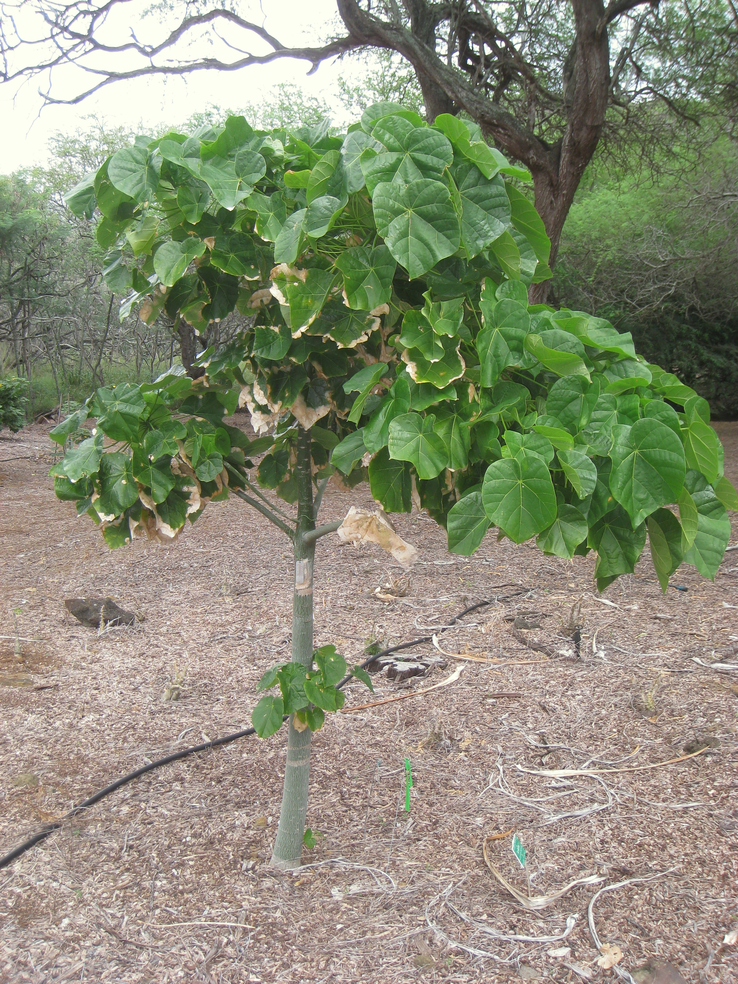 Hildegardia barteri in the Koko Crater Botanical Garden, Honolulu, Hawaii, USA.